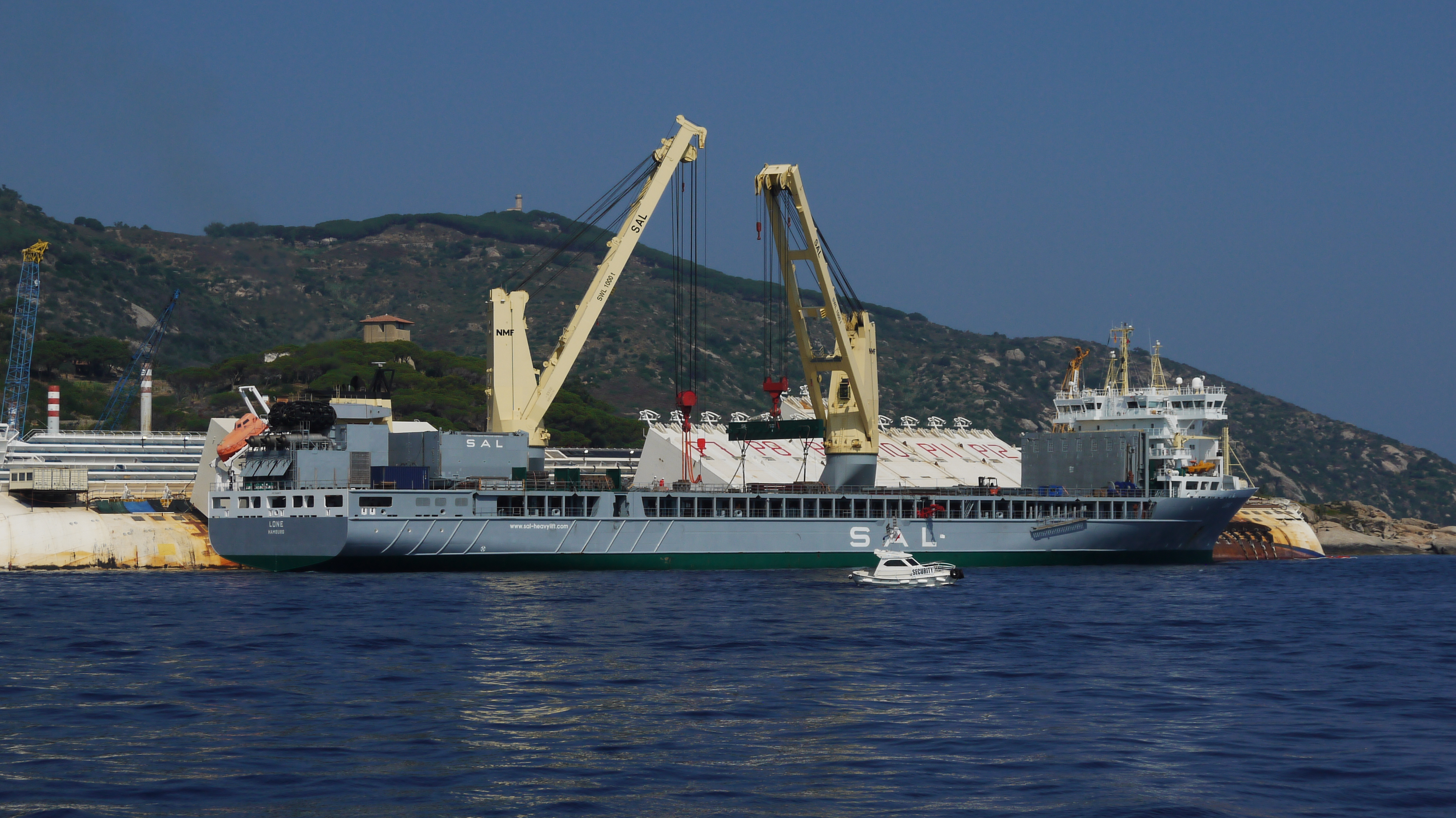 The Heavy Lift ship "SAL Lone" at Isola del Giglio during operations at the Costa Concordia Wreck